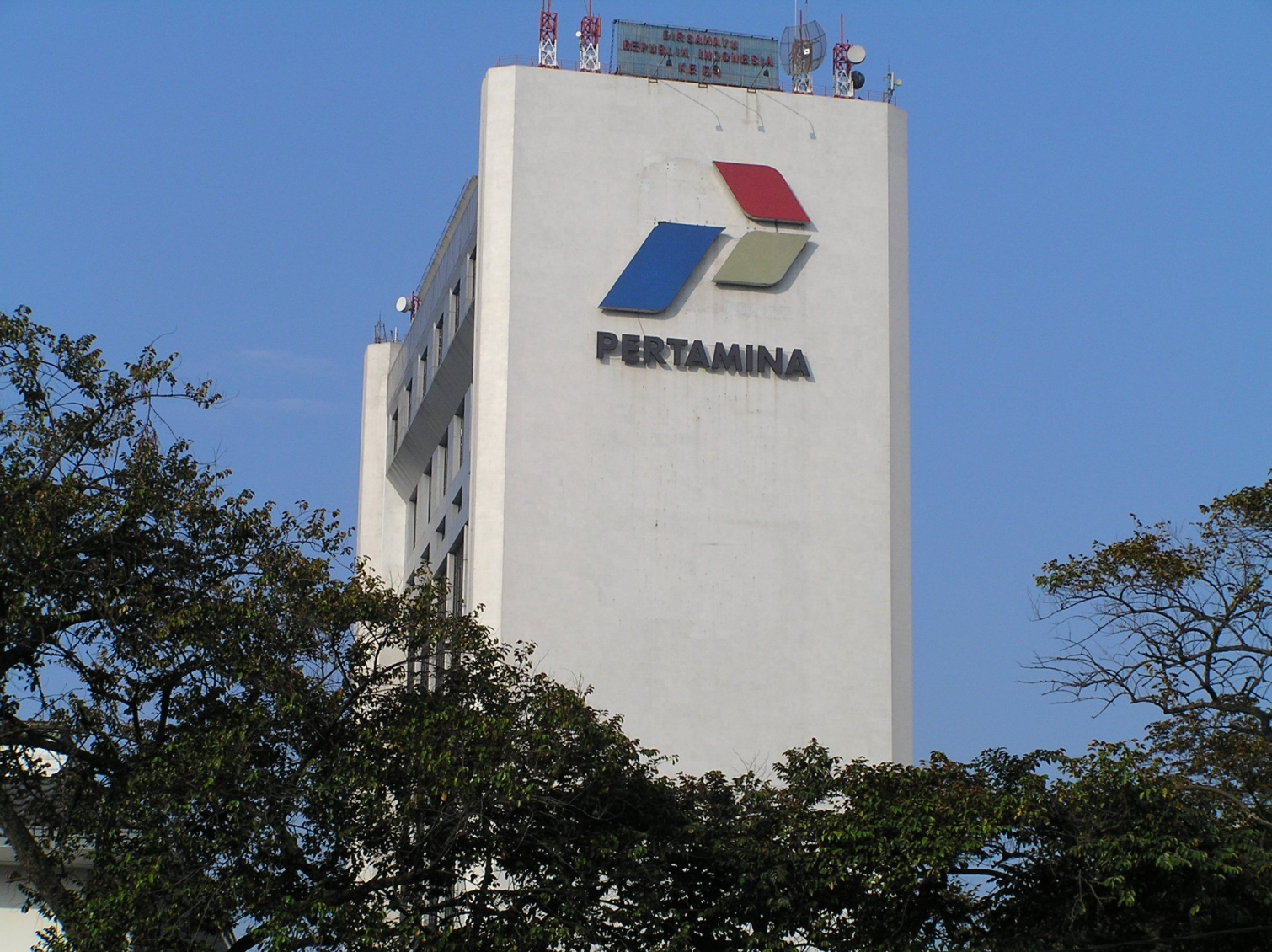 Head office of the Indonesian state oil company Pertamina in Jakarta